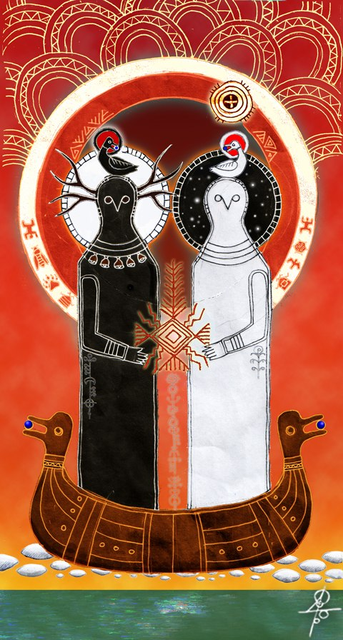 The artwork represents the supreme, dynamic polarity of the supreme God/Rod, which manifests in all dualities of things generated in matter. The polarity is represented as Belobog ("White God") and Chernobog ("Black God"), together interweaving Earth according to squared patterns. For further information about Slavic theo-cosmology, see the caption of Sukharev’s other artwork entitled The Seven Gods.